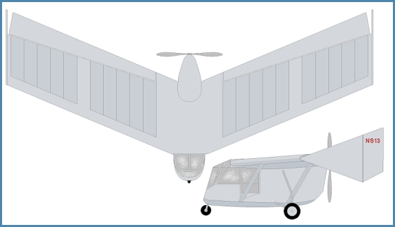 Waterman Arrowplane Drawing